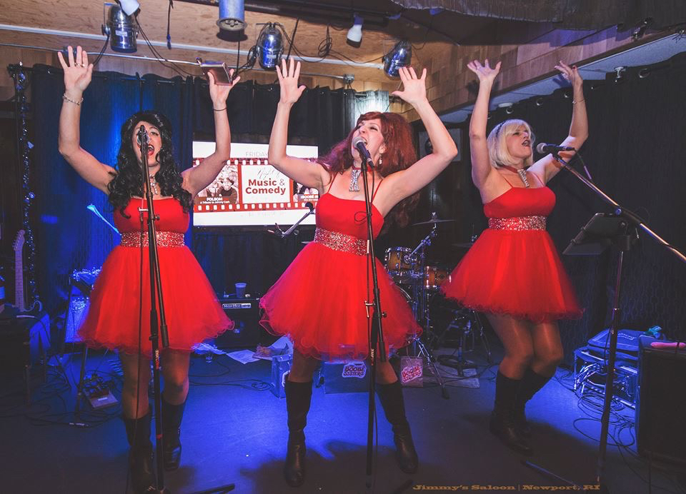 (Left to right) Reneé, Kayé, and Fayé Boobé live in Rhode Island